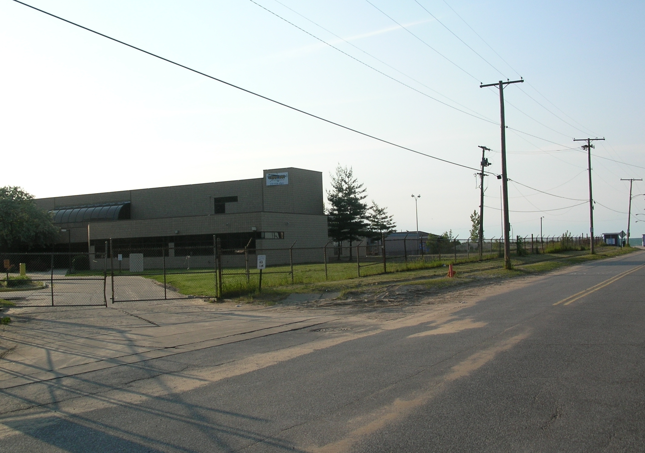 Charter School of the Dunes in the Miller Beach neighborhood in Gary, Indiana, adjacent to the Lake Street Beach.